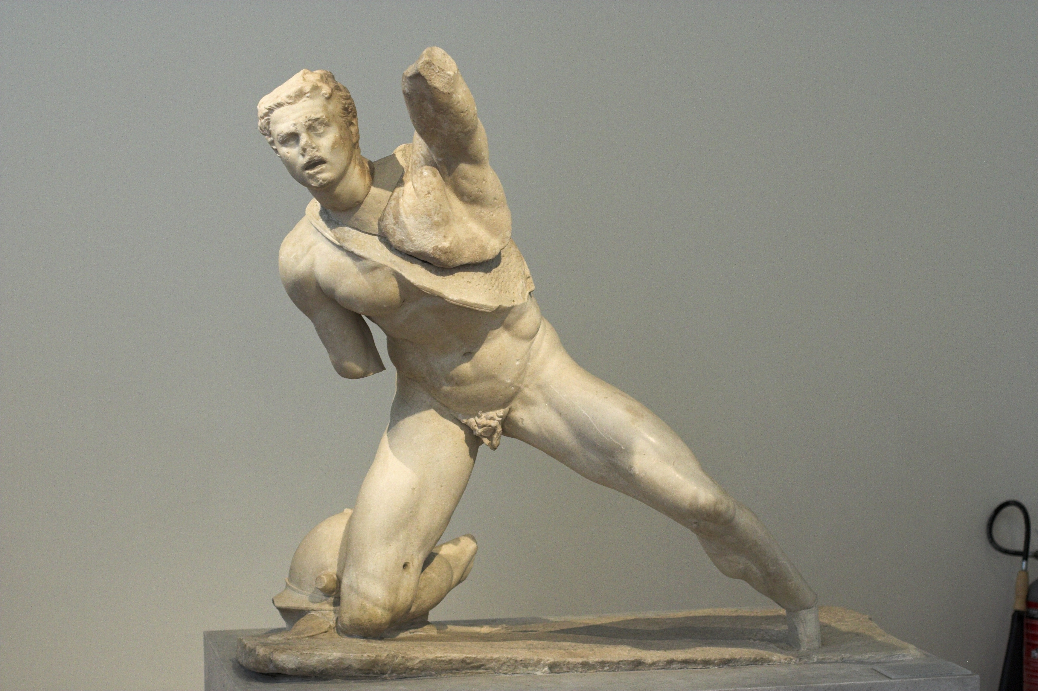 Gallic warrior, parian marble, around 100 BC, the likely author: Agasias son of Menophilos. The influence of sculpture school in Pergamon. Finding: Agora of the Italians in Delos. National Archaeological Museum of Athens N 247.